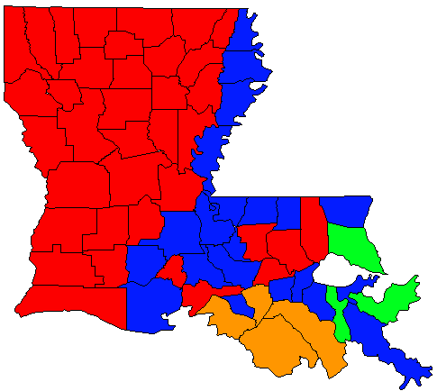 October 24, 1987 Louisiana Gubernatorial Election results by parish. [1] Red – Parishes in which candidate Buddy Roemer obtained a plurality of majority of the votes cast. Blue – Parishes in which candidate Edwin Edwards obtained a plurality of majority of the votes cast. Light Green – Parishes in which candidate Bob Livingston obtained a plurality of majority of the votes cast. Orange – Parishes in which candidate Billy Tauzin obtained a plurality of majority of the votes cast.